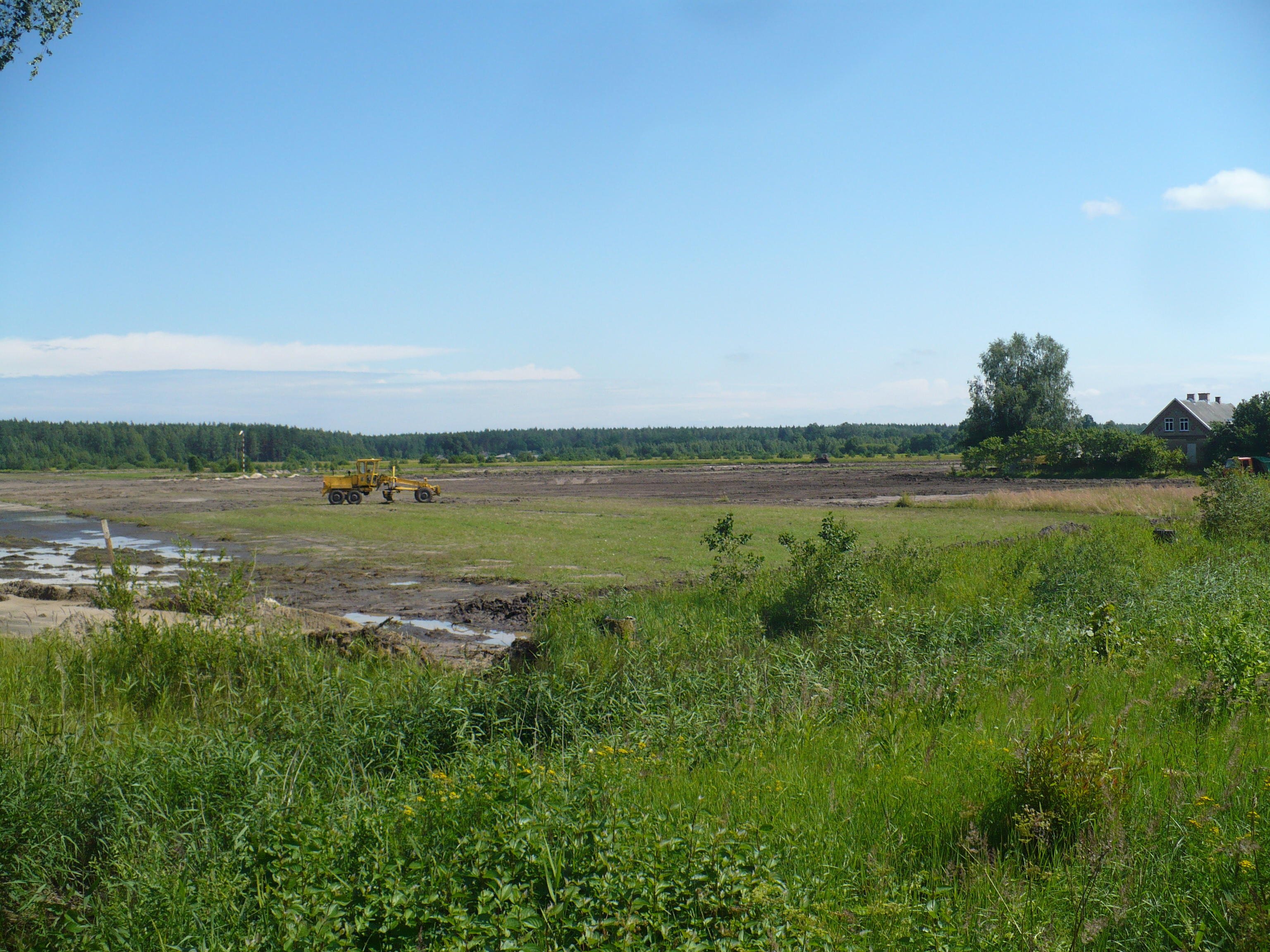 Construction works of small-aviation airport, July, 2009